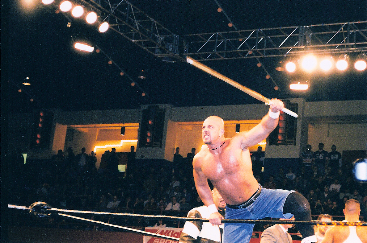 ECW @ Westchester County Center in White Plains, NY TNN TV Taping - 12.23.99